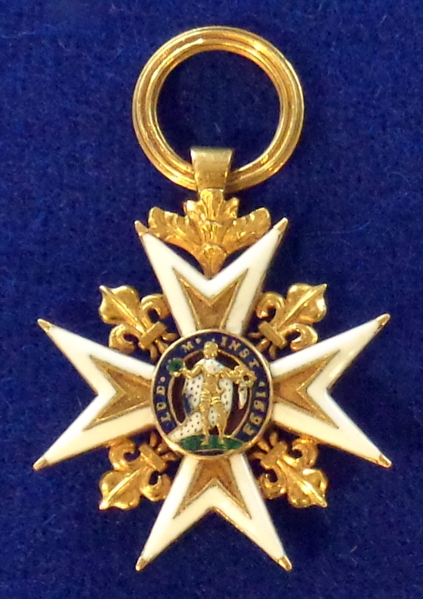 Military Order of Saint Louis, Knight's badge, c.1780. Kingdom of France. The exhibition of the Tallinn Museum of Orders of Knighthood, Estonia.